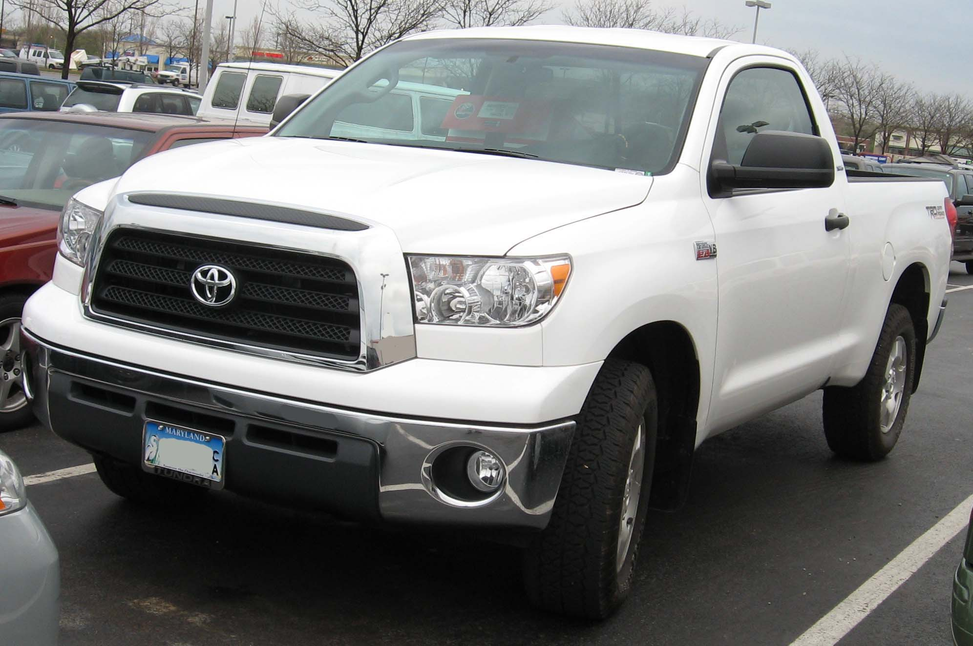 2007 Toyota Tundra photographed in USA.